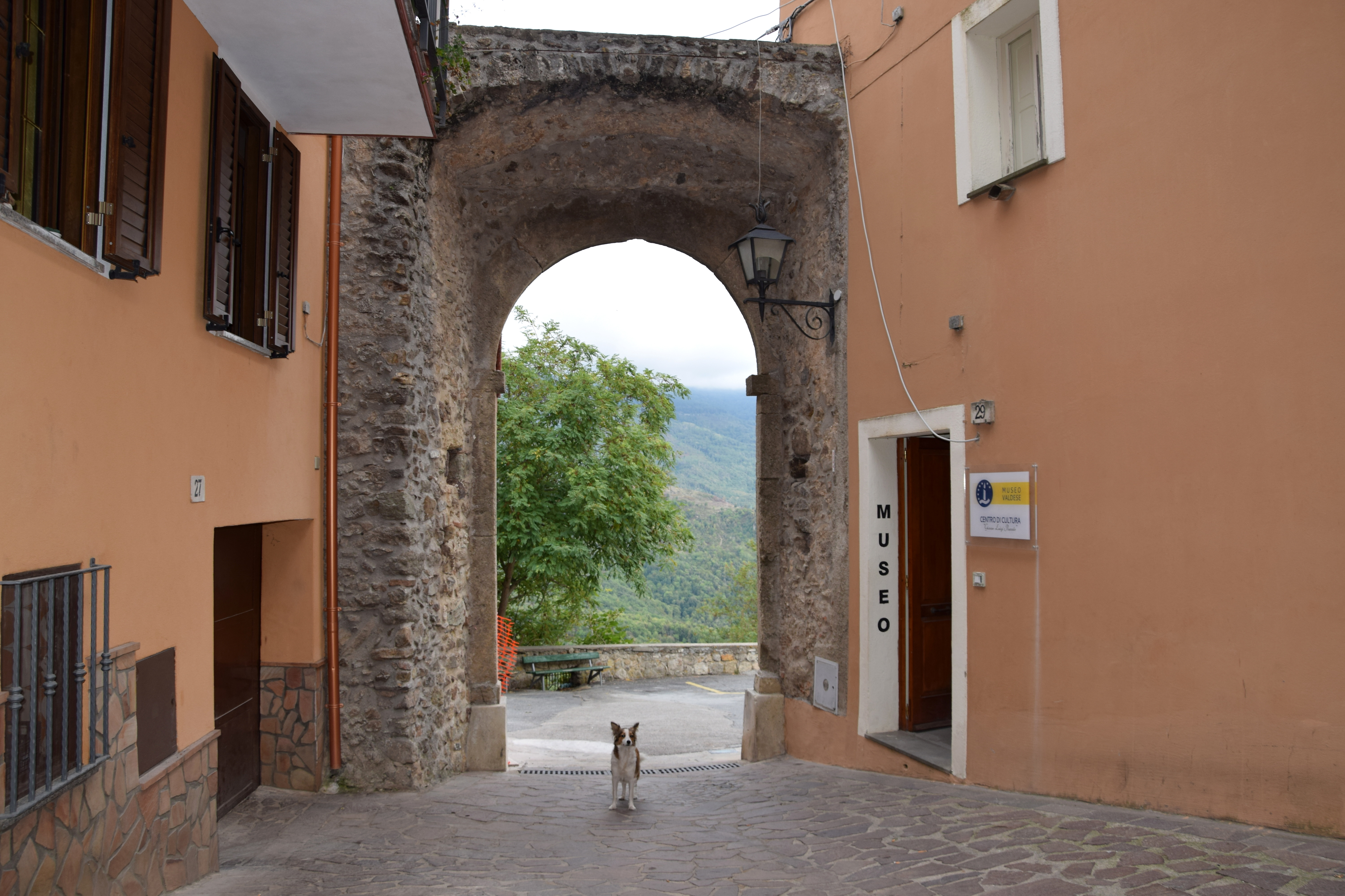 This is a photo of a monument which is part of cultural heritage of Italy.